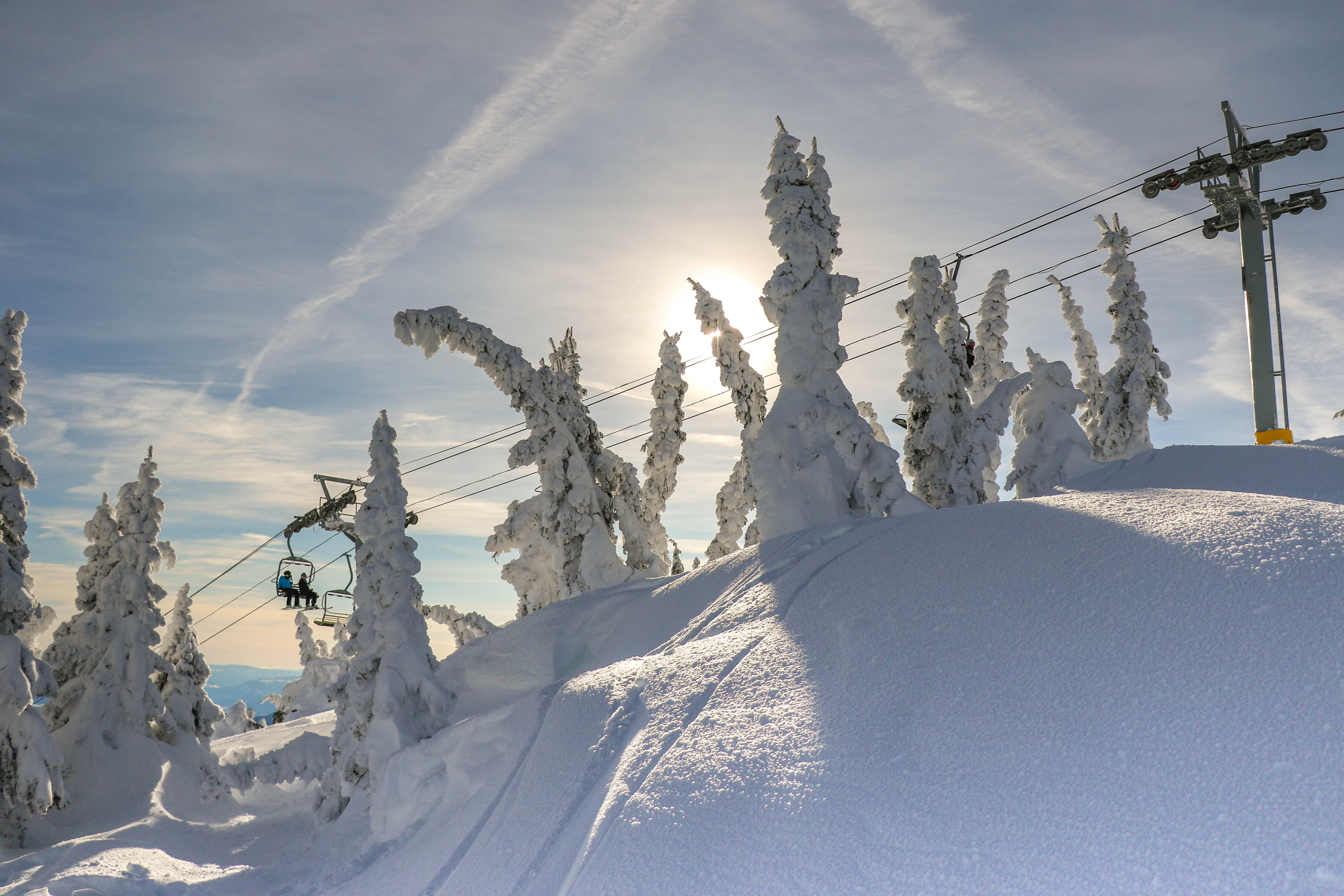 Top of the Crystal chairlift at Sun Peaks.